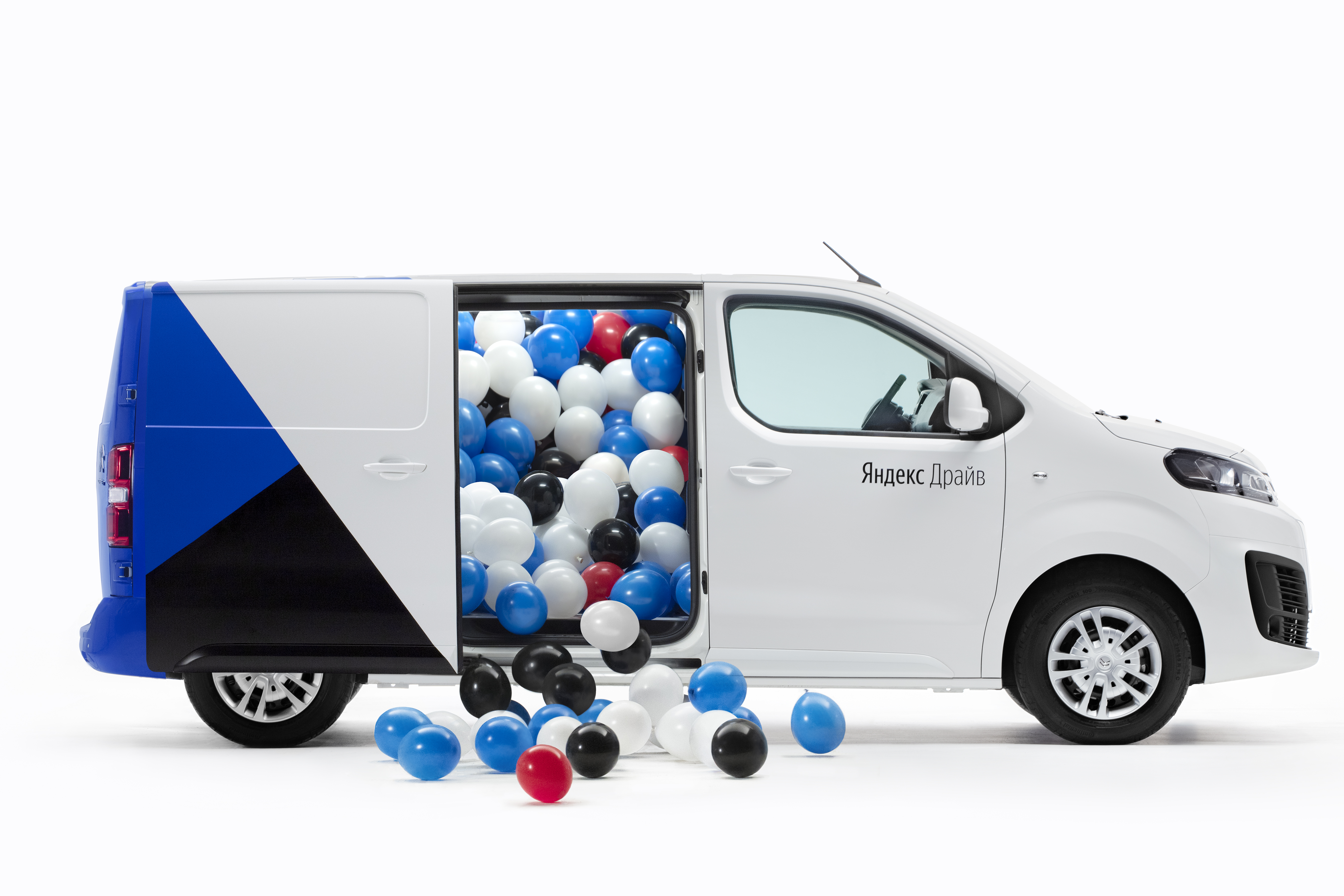 YandexDrive Citroën Jumpy